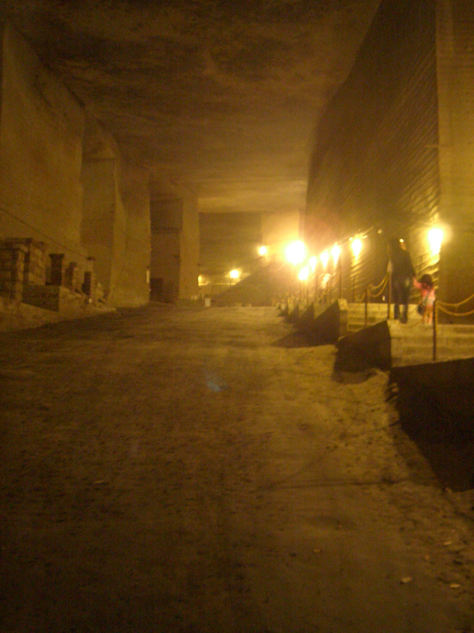 Underground cave Oya-tuffstone